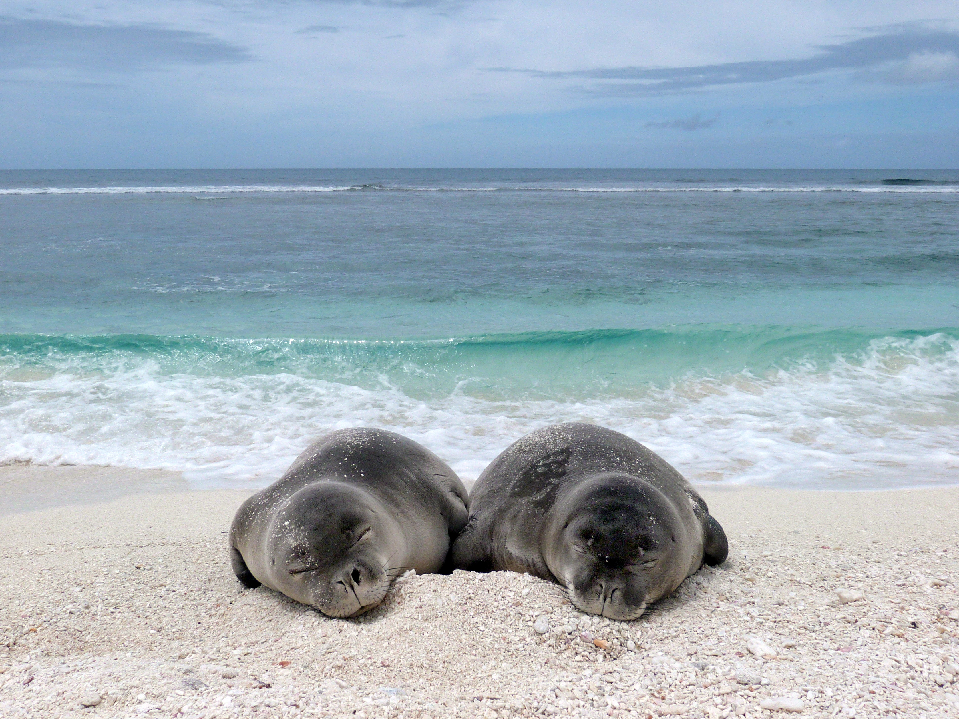 Two weaned seal pups sleeping on the beach. Image ID: anim2607, NOAA's Ark Collection Location: Hawaii, French Frigate Shoals Credit: NOAA/PIFSC/HMSRP